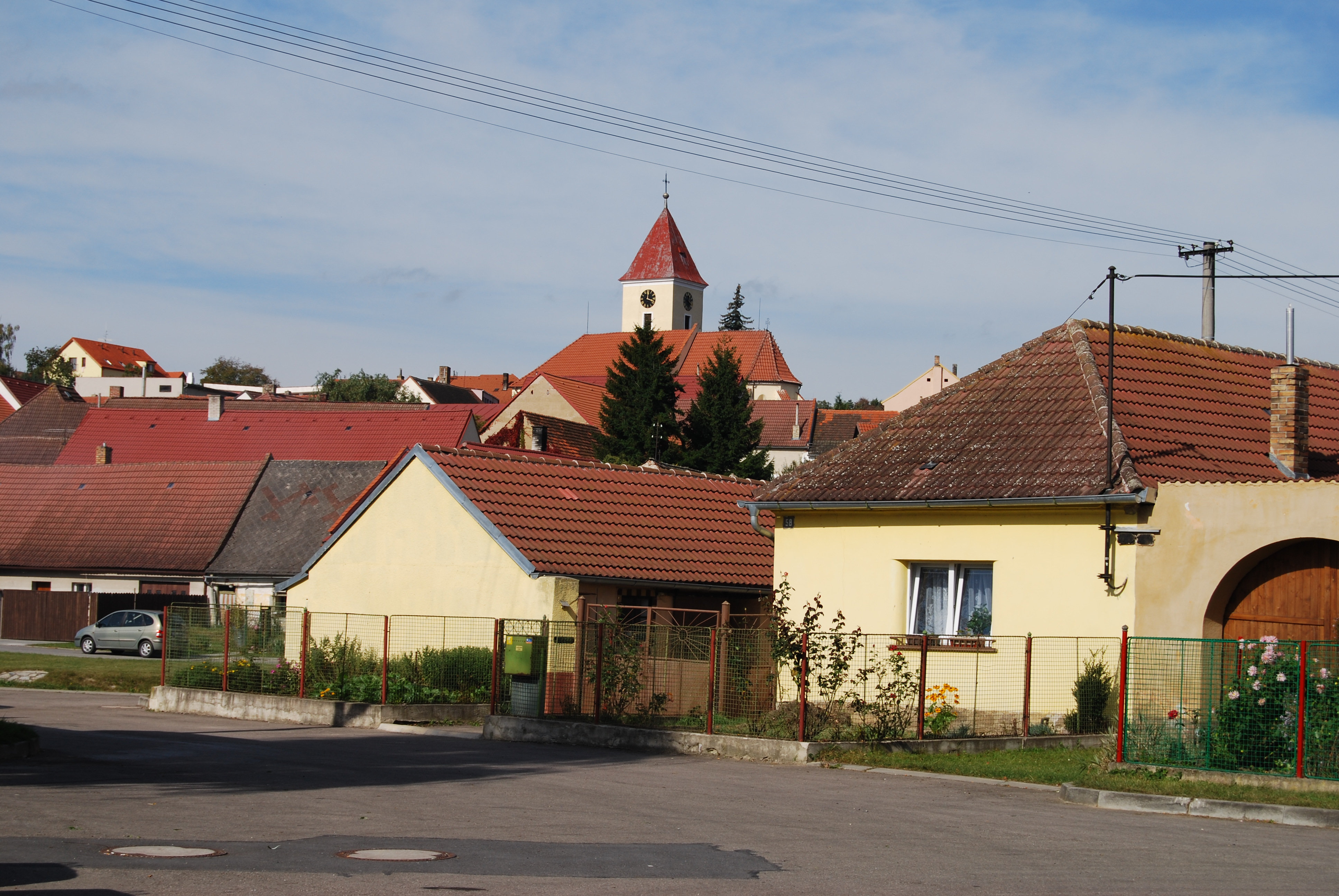 Strunkovice nad Blanicí in Prachatice District, Czech Republic.